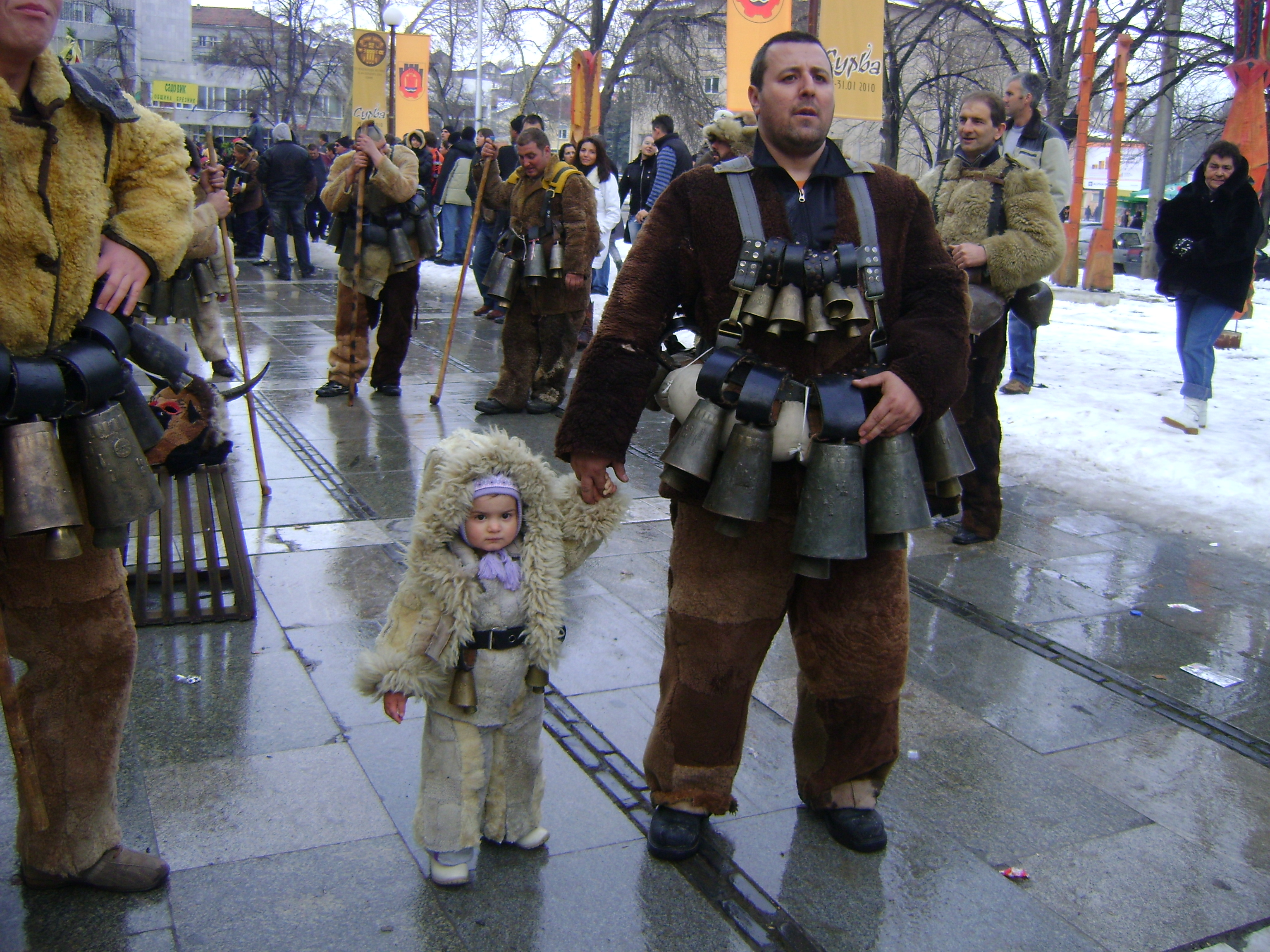 Kukeri in village Sopitsa, Bulgaria